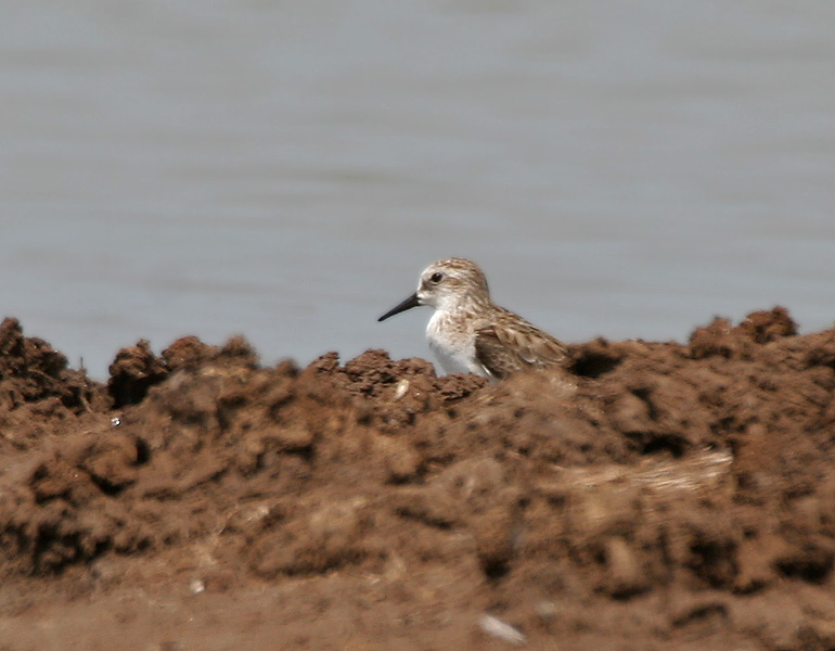 Little Stint Calidris minuta in Krishna Wildlife Sanctuary, Andhra Pradesh, India.